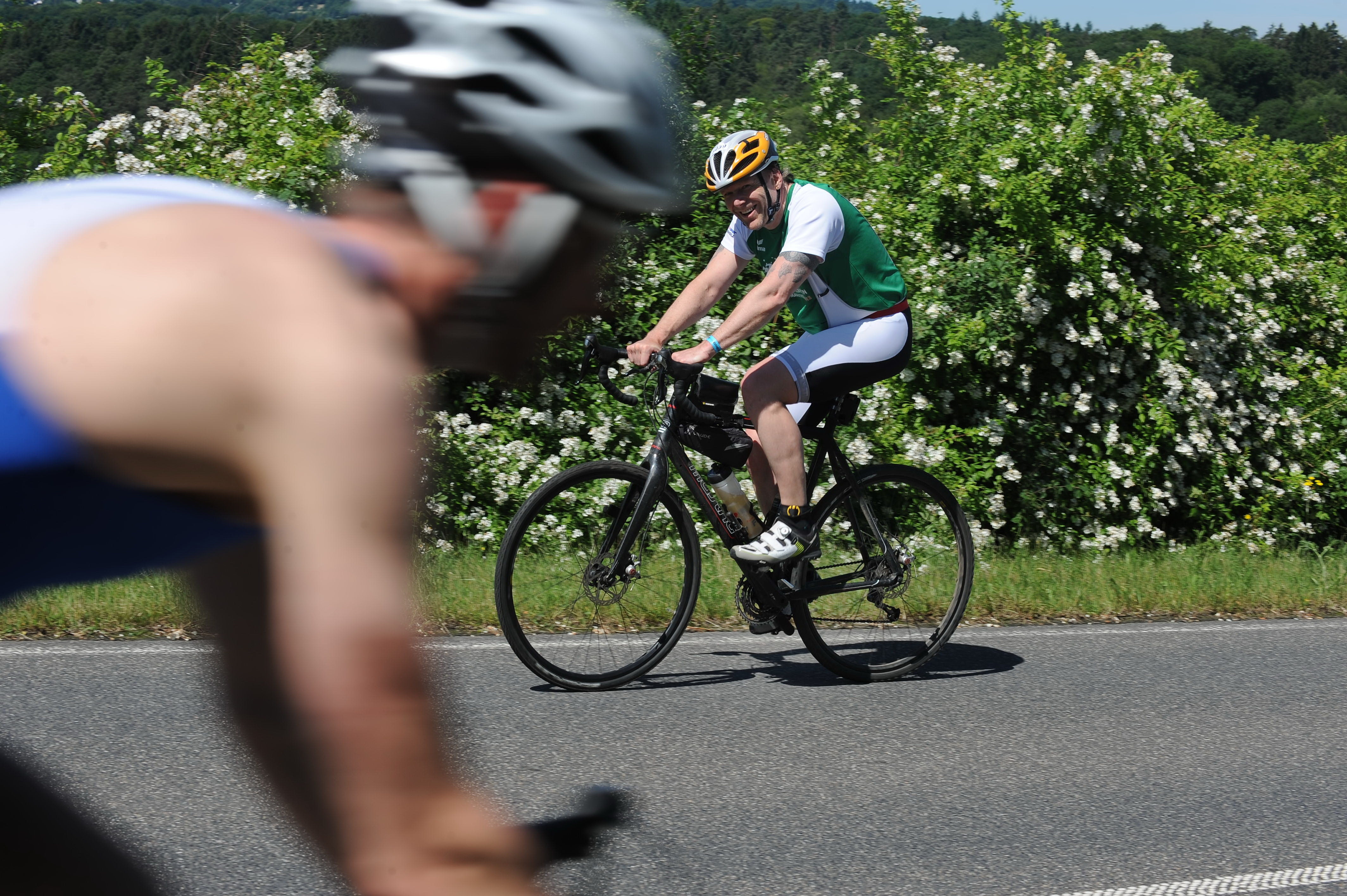 Triathletes crossing the nature reserve Seven Hills on bike section of Bonn Triathlon 2015